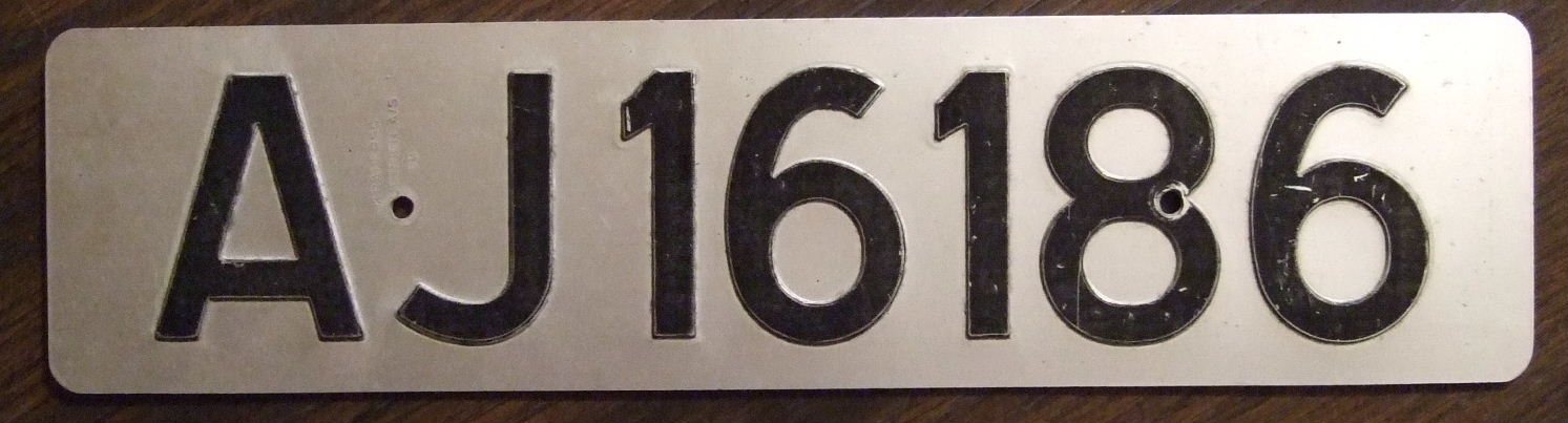 This Norwegian plate of the 1972 series was issued after 1977 to Mysen in the county of Ostfeld, Norway.